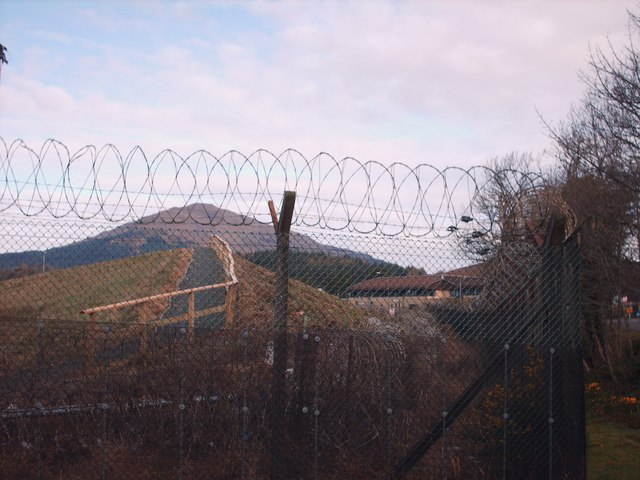 Coulport MOD Property